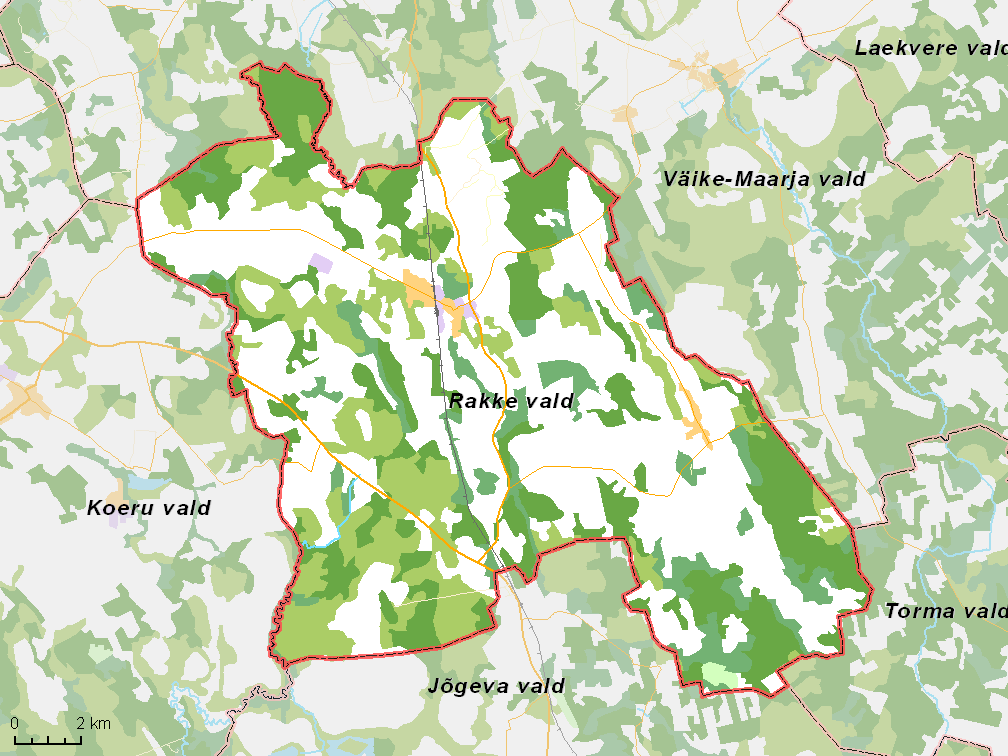 Map of municipality in Estonia